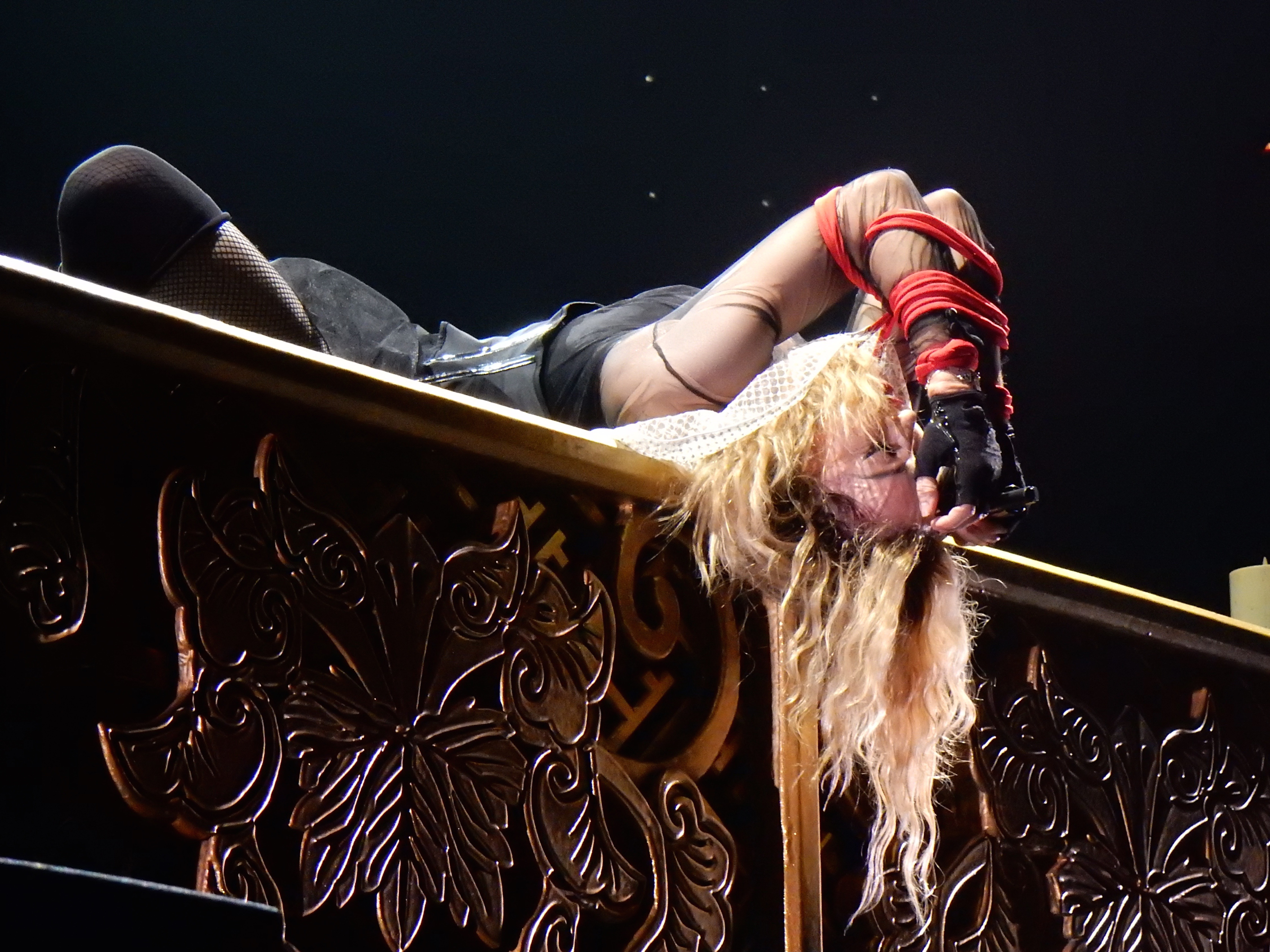 Madonna - Rebel Heart Tour 2015 - Berlin 1